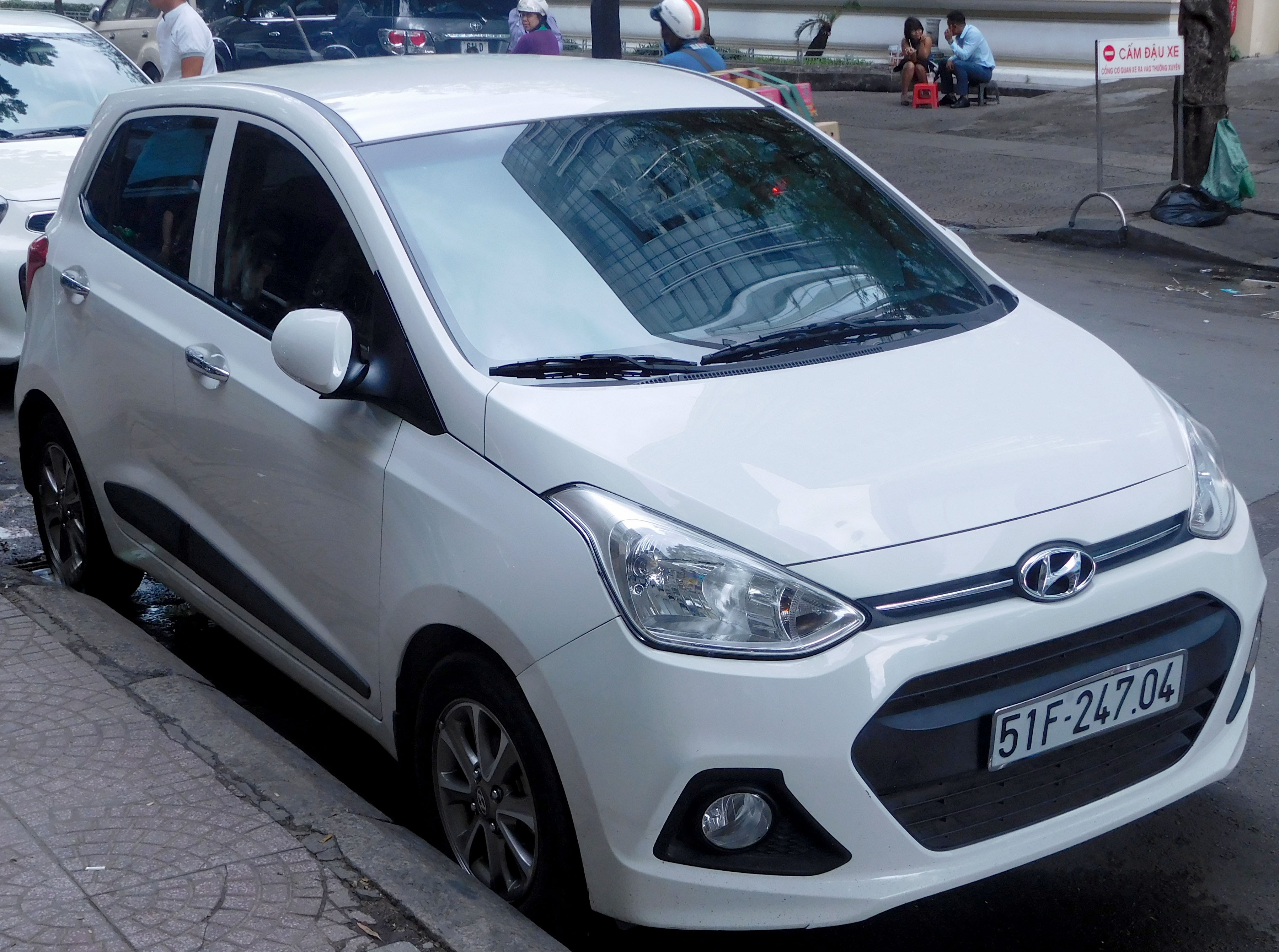 Hyundai Grand i10, photographed in Ho Chi Minh City, Vietnam.